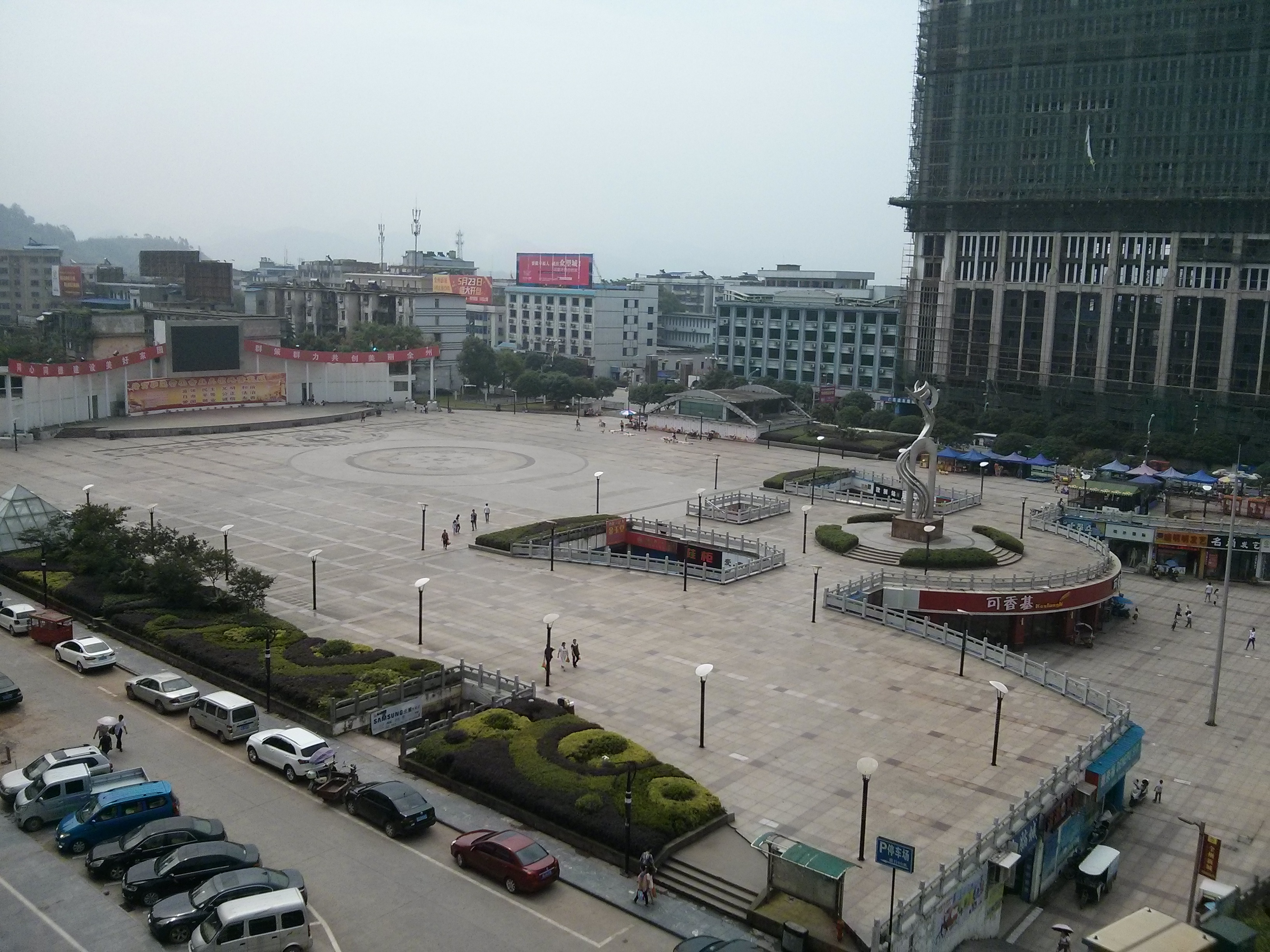 Sqare_of_Quan`zhou_county